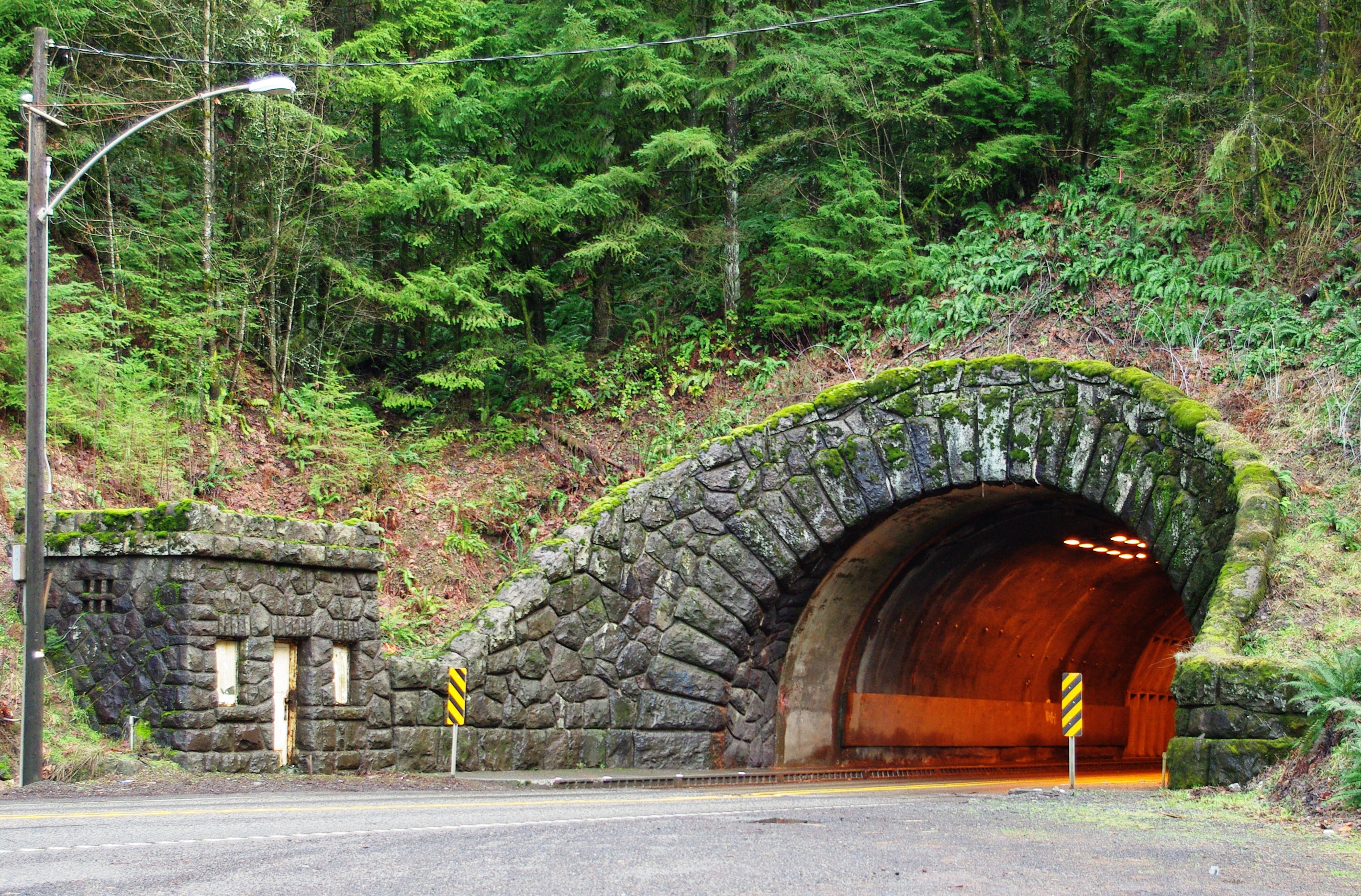 Dennis L. Edwards Tunnel in Oregon. West entrance carrying U.S. Route 26 into the tunnel.